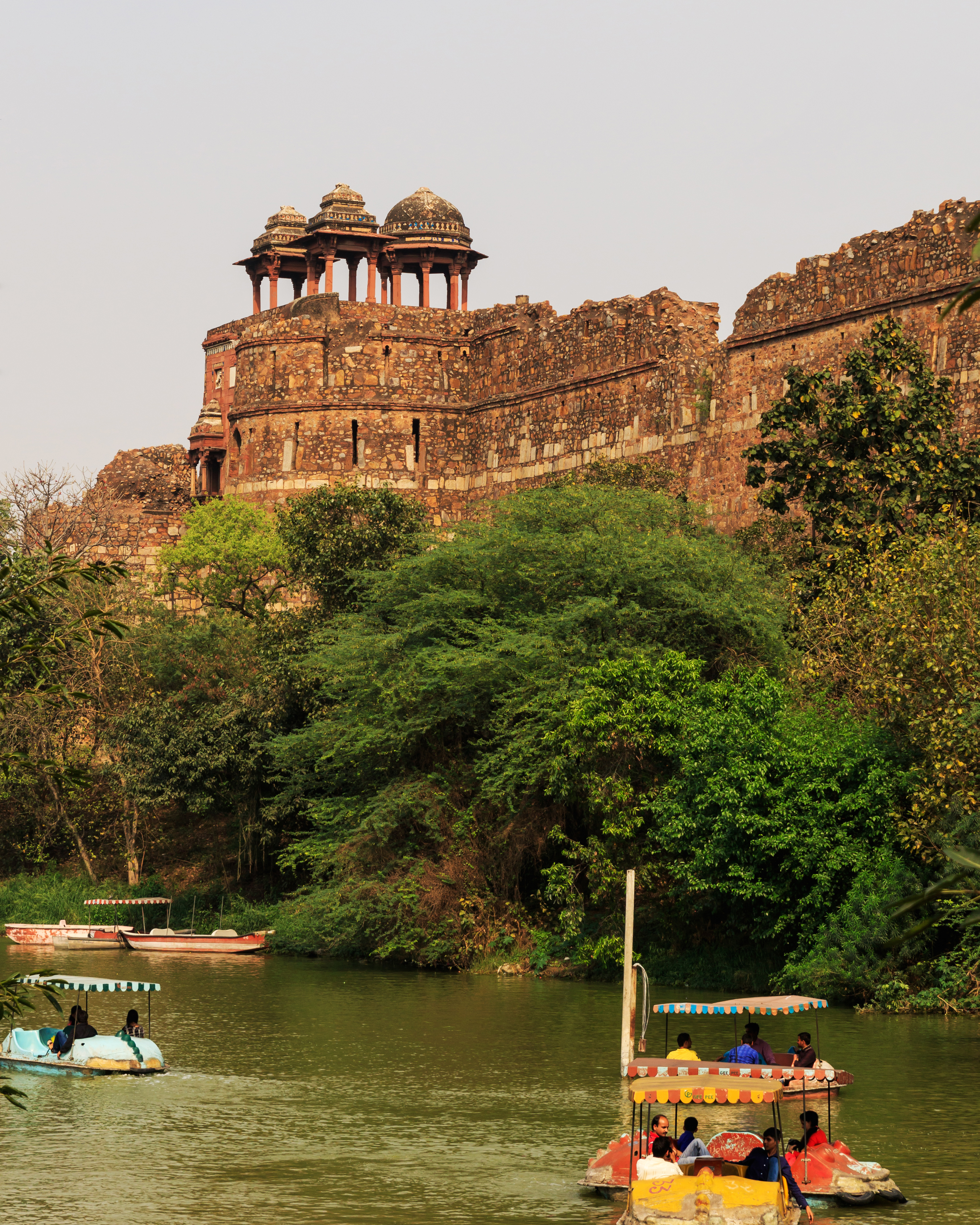 Purana Qila / Old Fort in Delhi, India